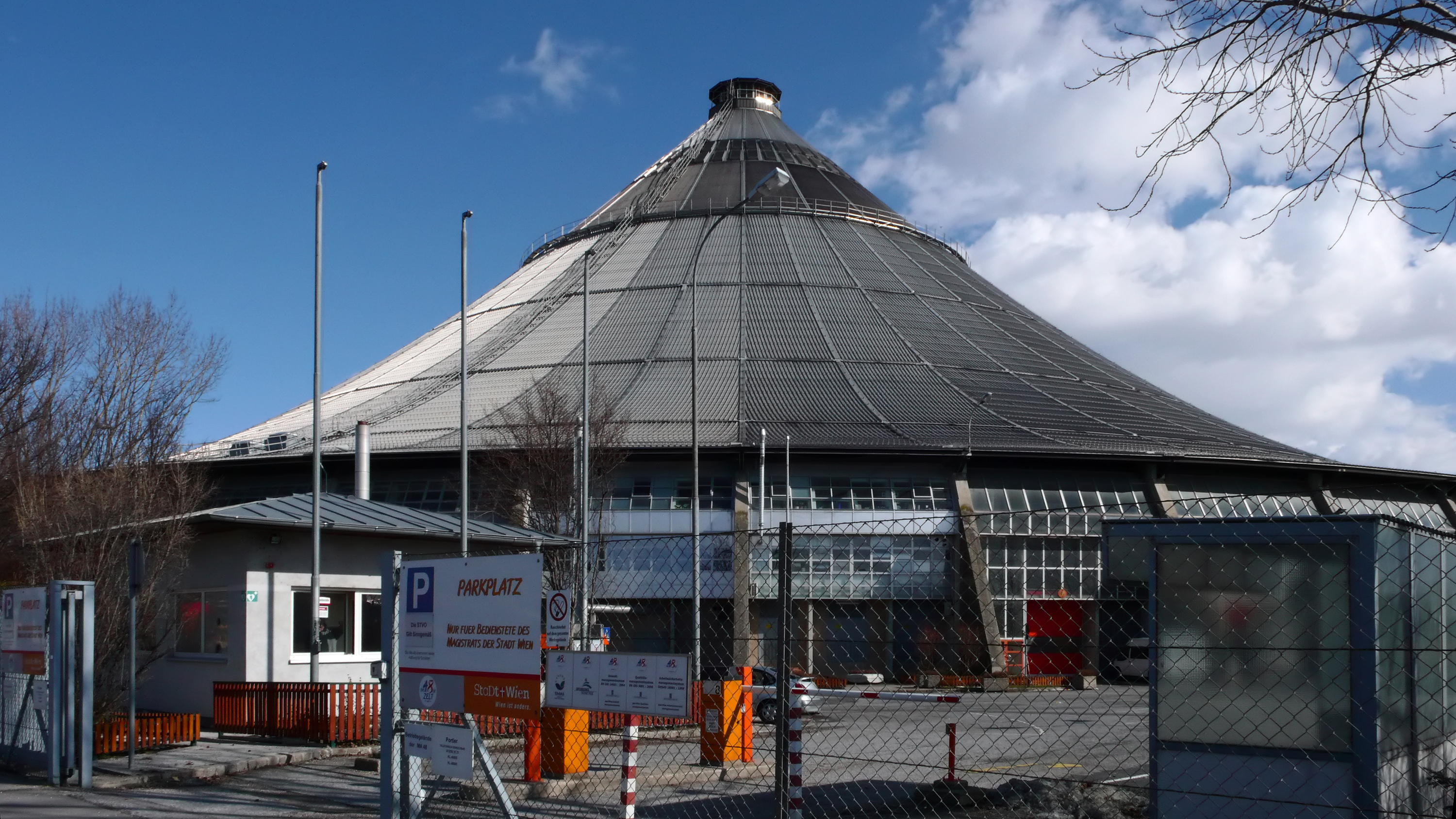 Waste management facility "Rinterzelt" in Vienna Donaustadt